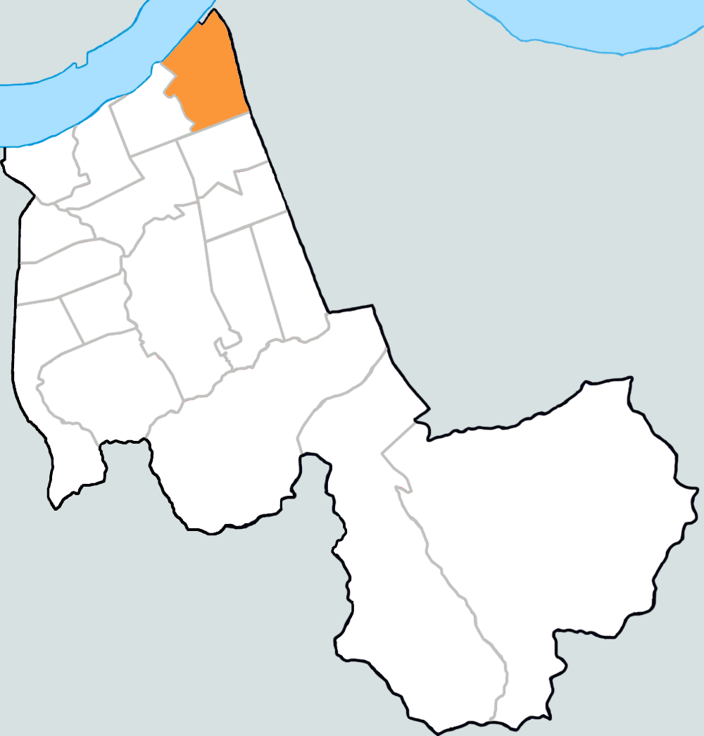 Jamwondong within Seocho-gu